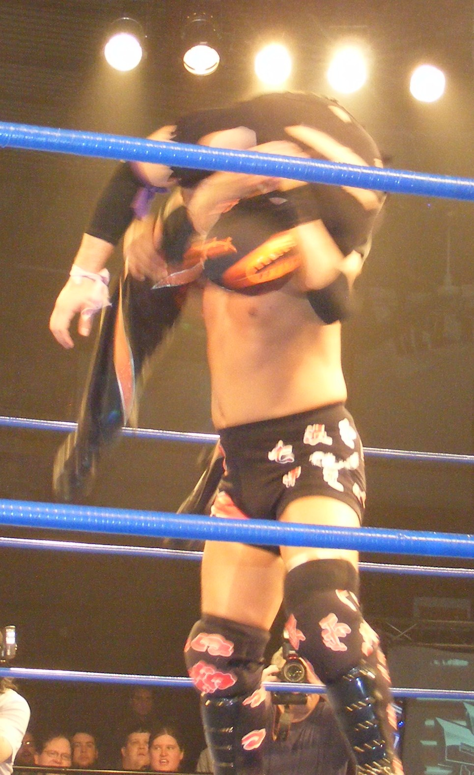 KAGETORA has Frightmare in a fireman's carry at the CHIKARA King of Trios event on 15 April 2011.